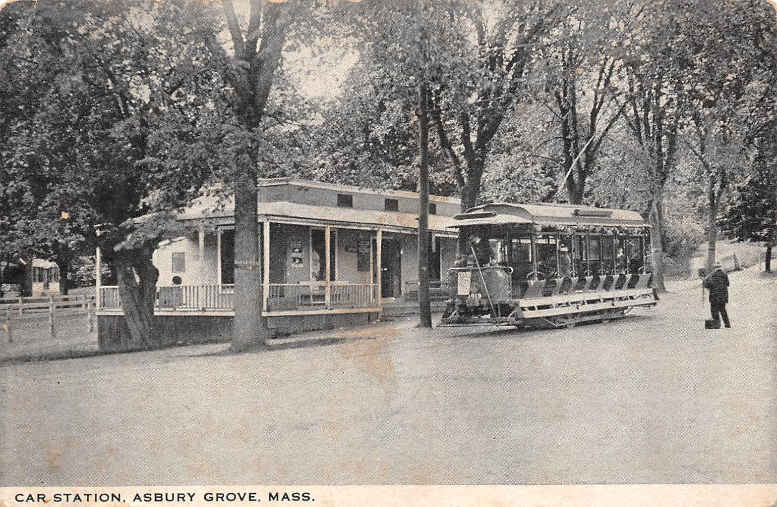 Early divided back postcard of a trolley at Asbury Grove